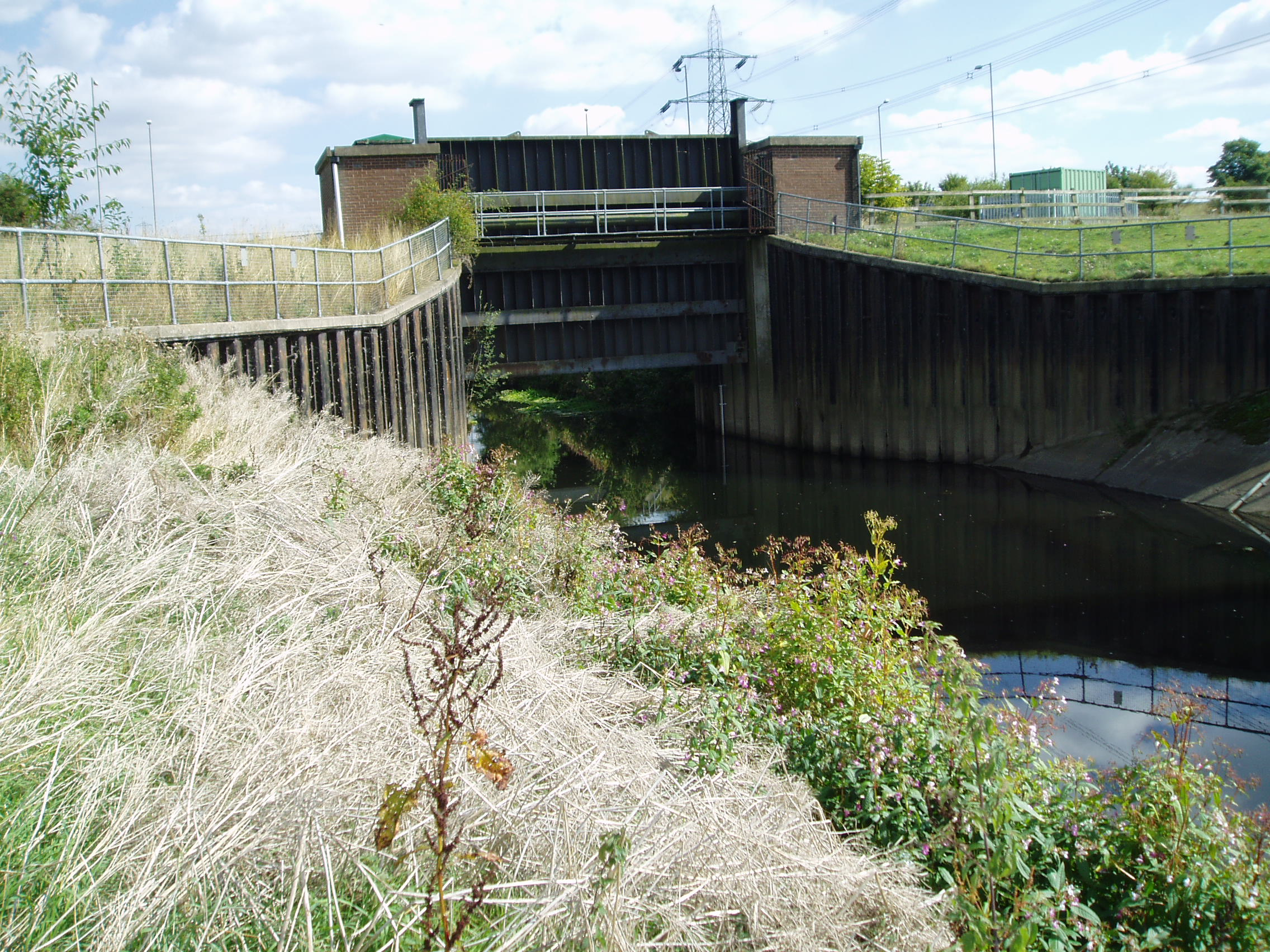 The Canklow flood defence regulator on the River Rother in South Yorkshire, England